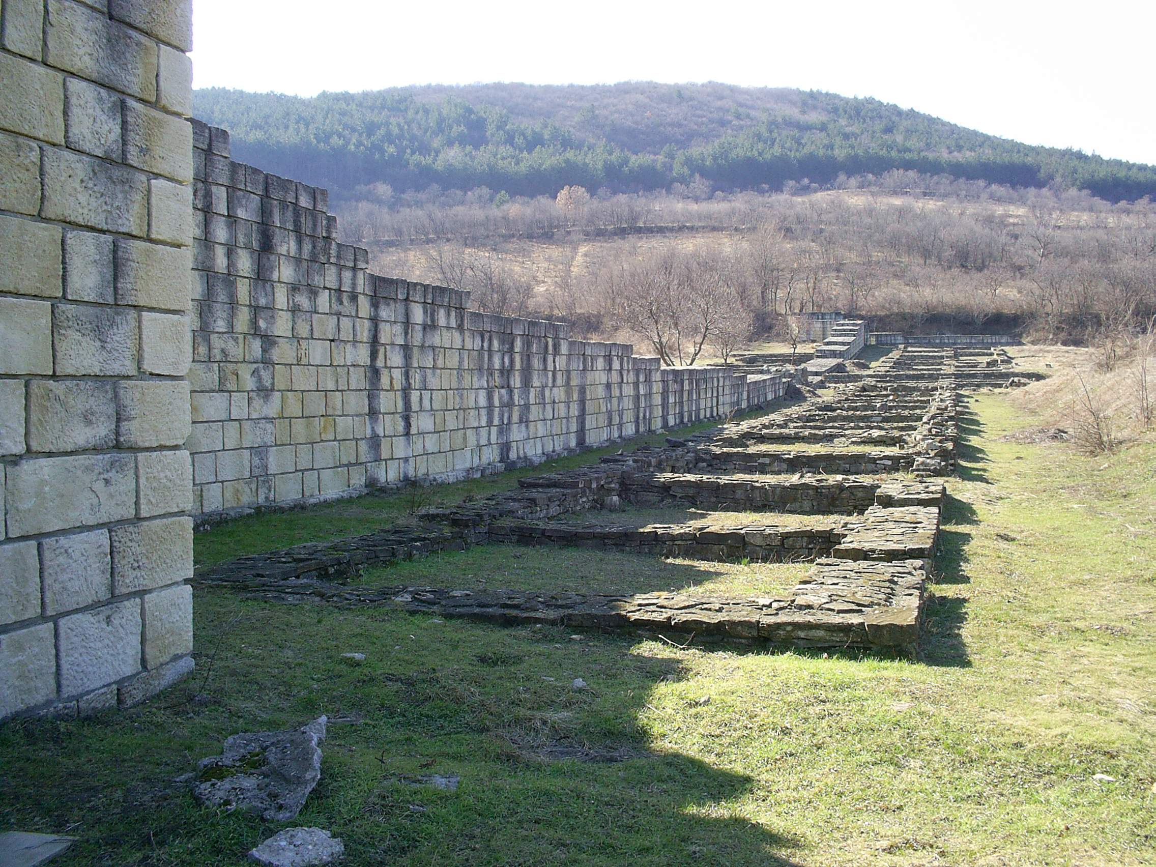 Veliki Preslav - view towards the ruins and the fortress wall. Bulgaria